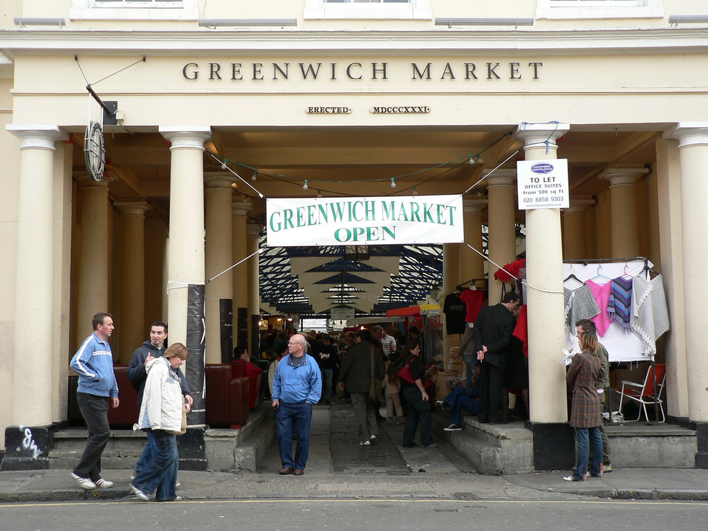 Greenwich Market in london